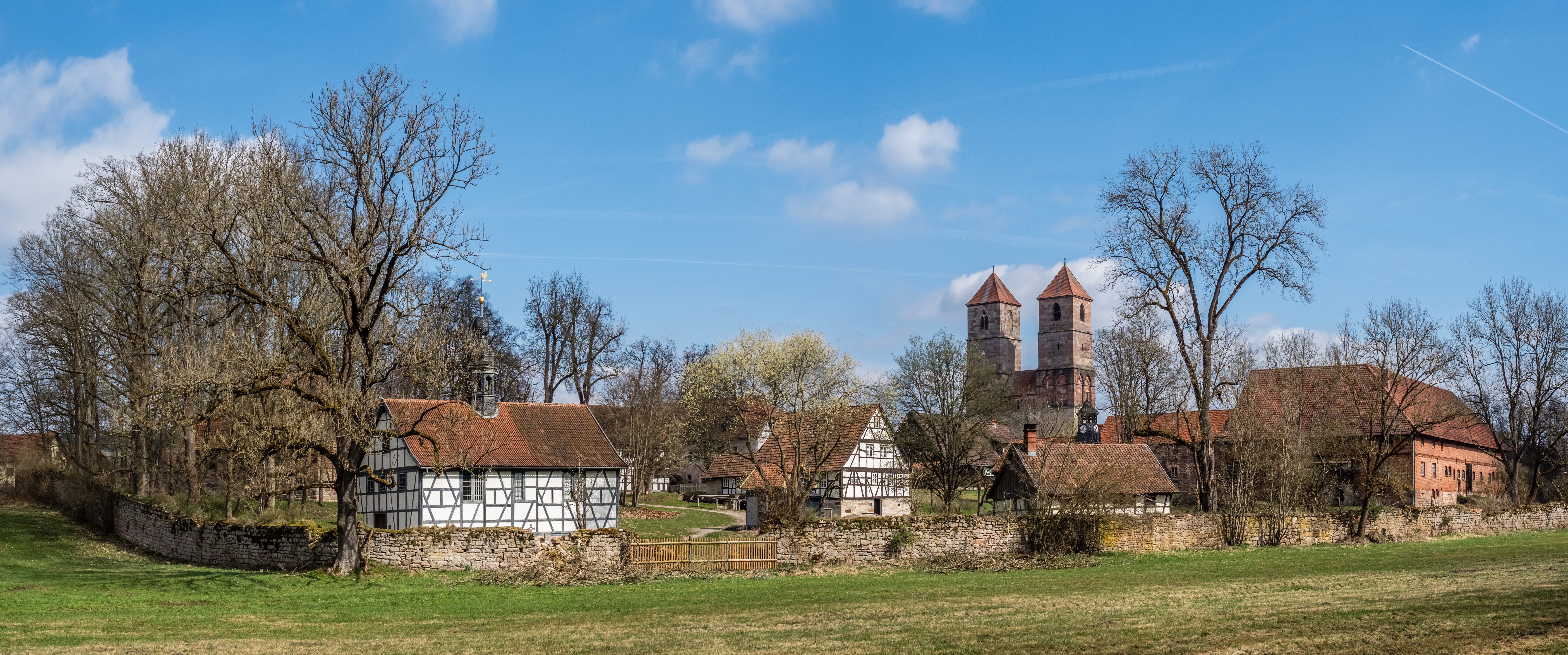 Open air museum Kloster Veßra